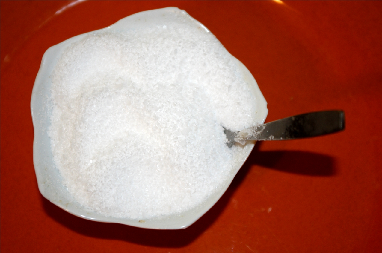 Small bowl of kosher salt with spoon